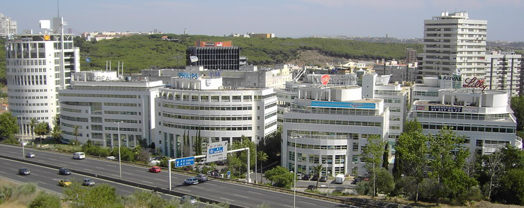 Arquiparque, business park in Oeiras, Lisbon region, Portugal